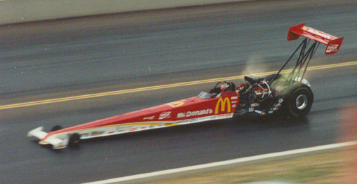 Cory McClenathan, Denver. Ed McCulloch had been the McDonald's driver and I think this was Cory's first season in it. It was before 1999 because he was in his green/black MBNA car that year.Cory McClenathan